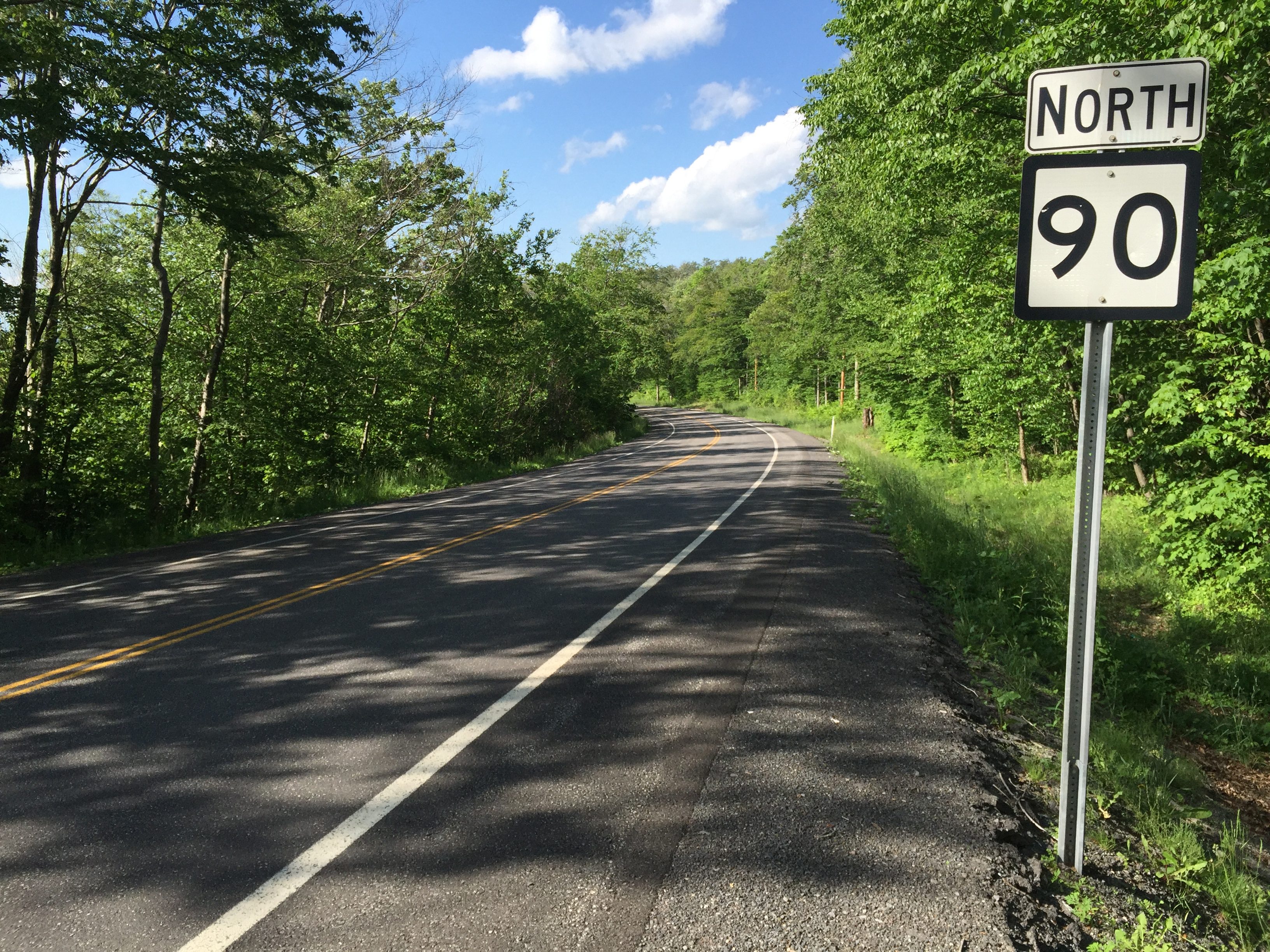 View north along West Virginia State Route 90 (Henry Dobbin Highway) south of Wilsonia in northwestern Grant County, West Virginia